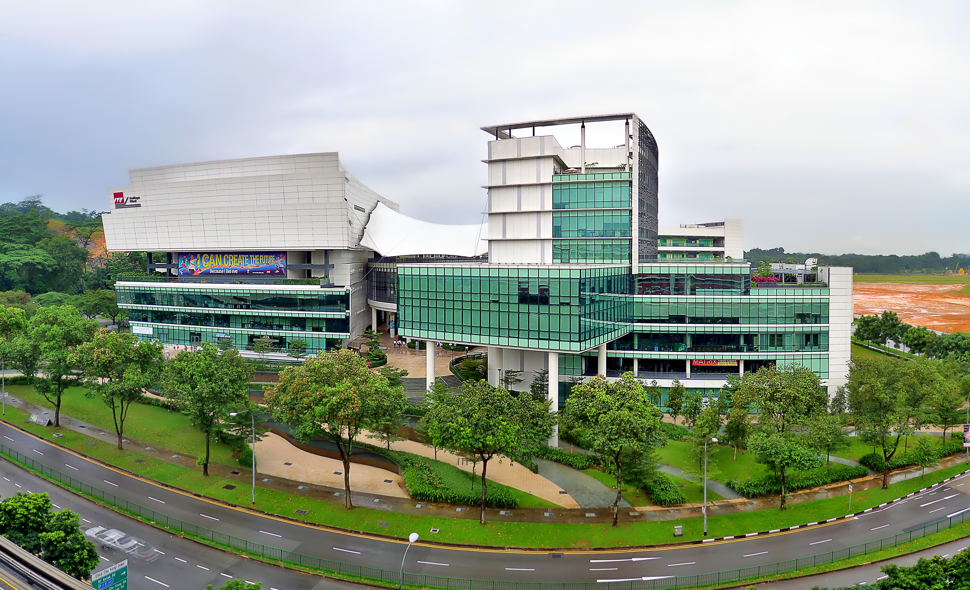 Pano 7 x 1 tile. Taken in the rain....